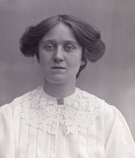 Suffragette Laura Ainsworth. This picture was taken by Colonel Linley Blathwayt and was stored on glass negatives. The Blathwayt's home of Eagle House way the home of Linley, Emily and Mary Blathwayt who all actively supported the suffragette cause. Nearly all the prominient UK suffragettes stayed with them and these photos and dozens of trees were planted to commemorate their visits. Col. Linley Blathwayt took these pictures between 1908 and 1912. He died in 1919. The pictures are made available in larger formats by .